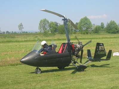 Image of Super Genie Autogyro, readying for take-off